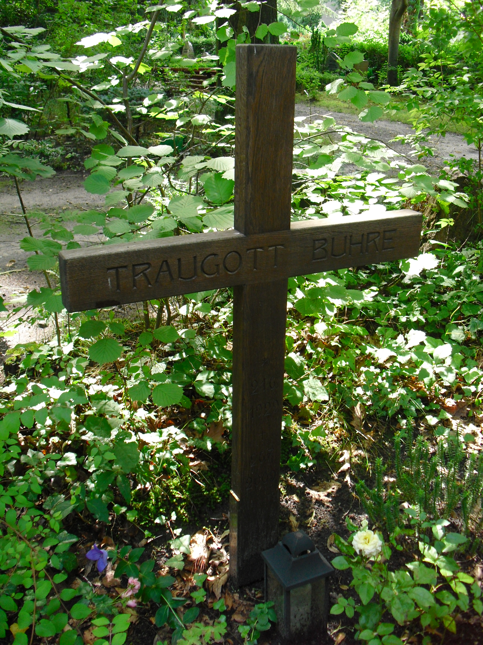 Grave of German actor Traugott Buhre in Friedhof Lichterfelde, Berlin.